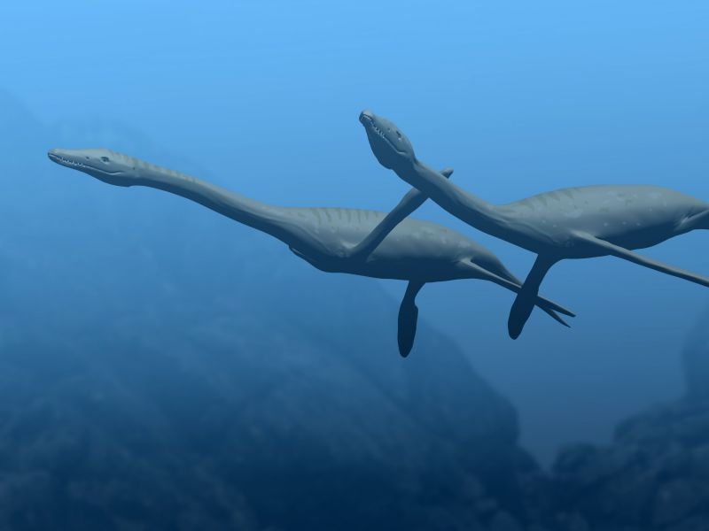 Plesiosaurus dolichodeirus from the Early Jurassic of England. Digital.